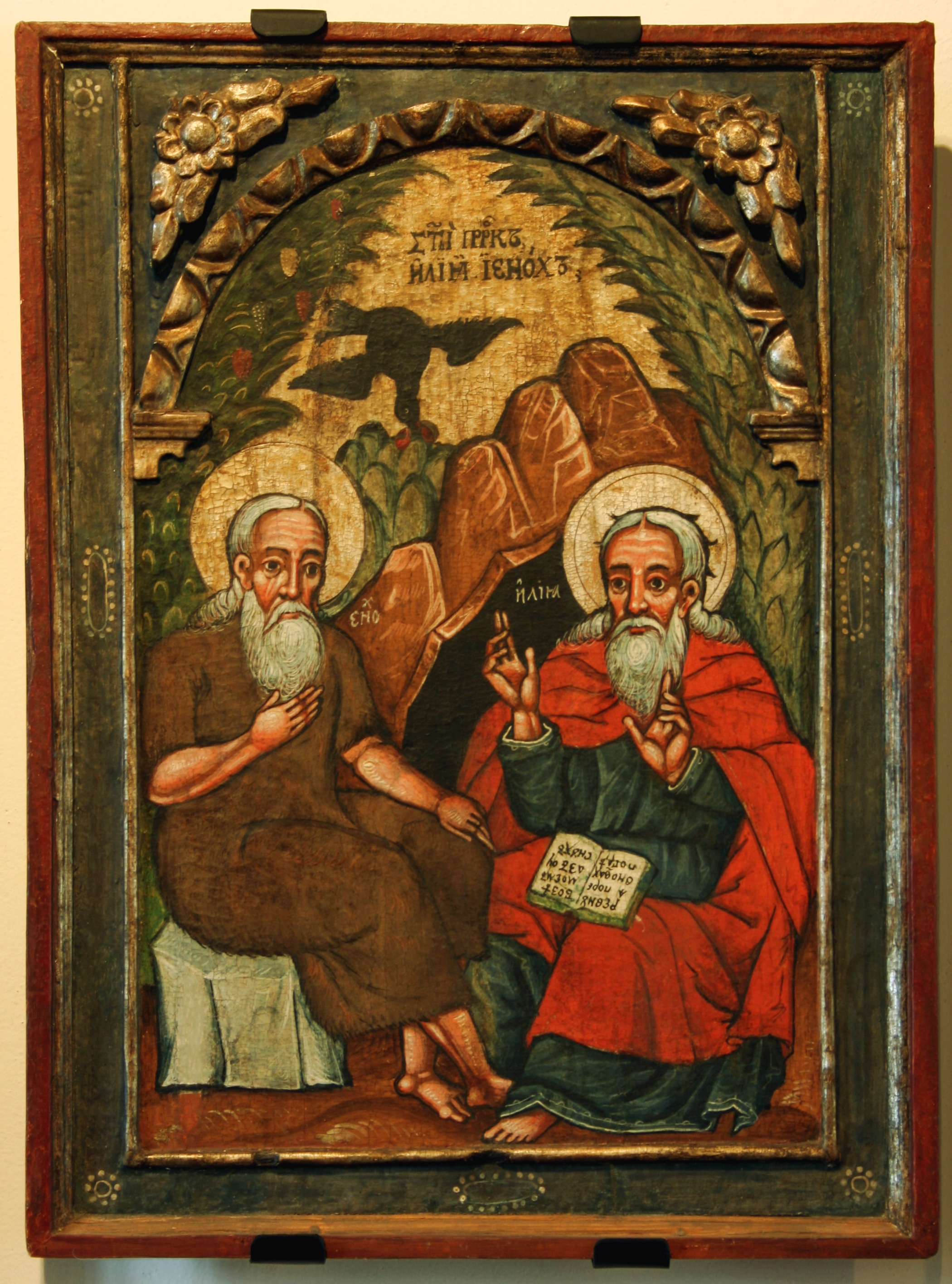 Elijah and Enoch (ancestor of Noah) - an icon 17th cent., Historic Museum in Sanok, Poland